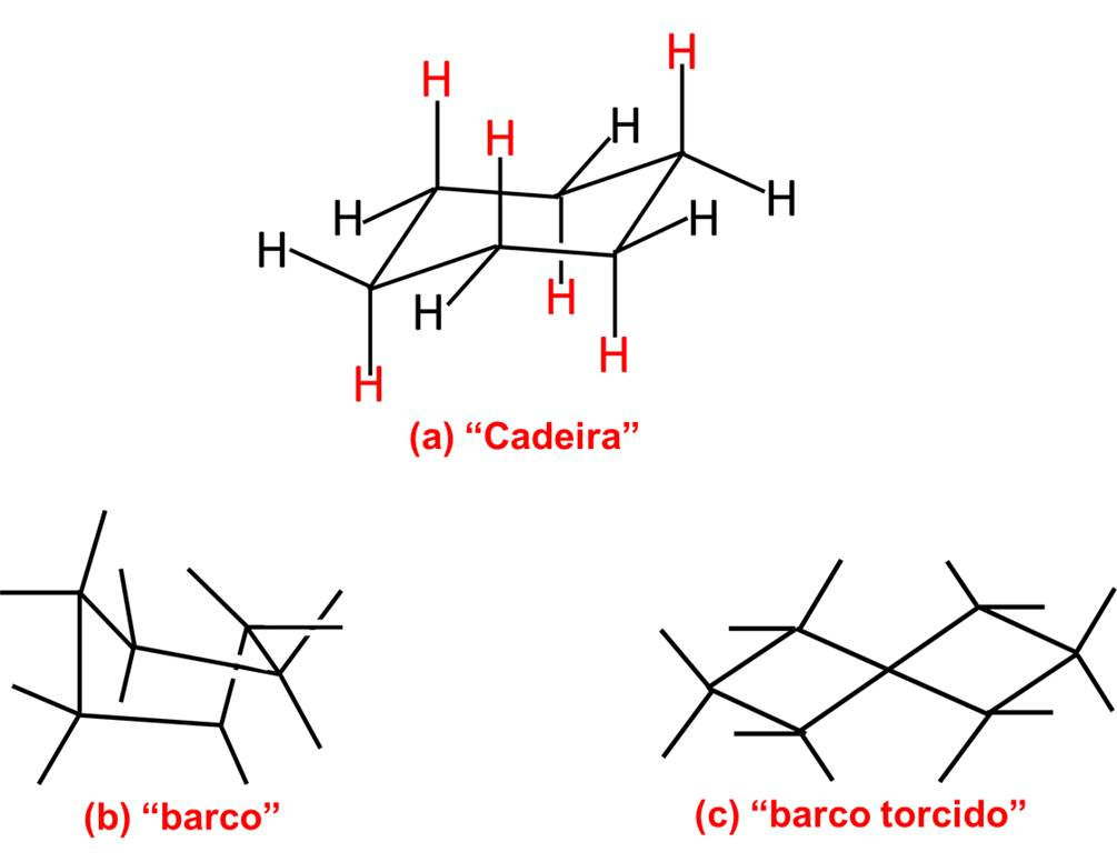 Figura f. Conformações do ciclohexano livres de tensão angular